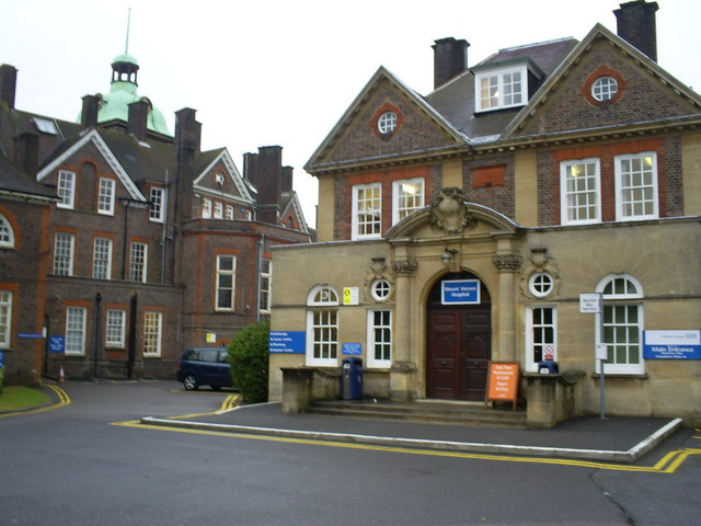 Main Entrance to Mount Vernon Hospital The hospital was founded in 1860 as The North London Hospital for Consumption and Diseases of the Chest in Fitzroy Square , London and moved in 1864 to Mount Vernon in Hampstead. In 1904,the hospital moved here to its current site in Northwood. Today it provides a specialist non-surgical cancer service and a burns unit.